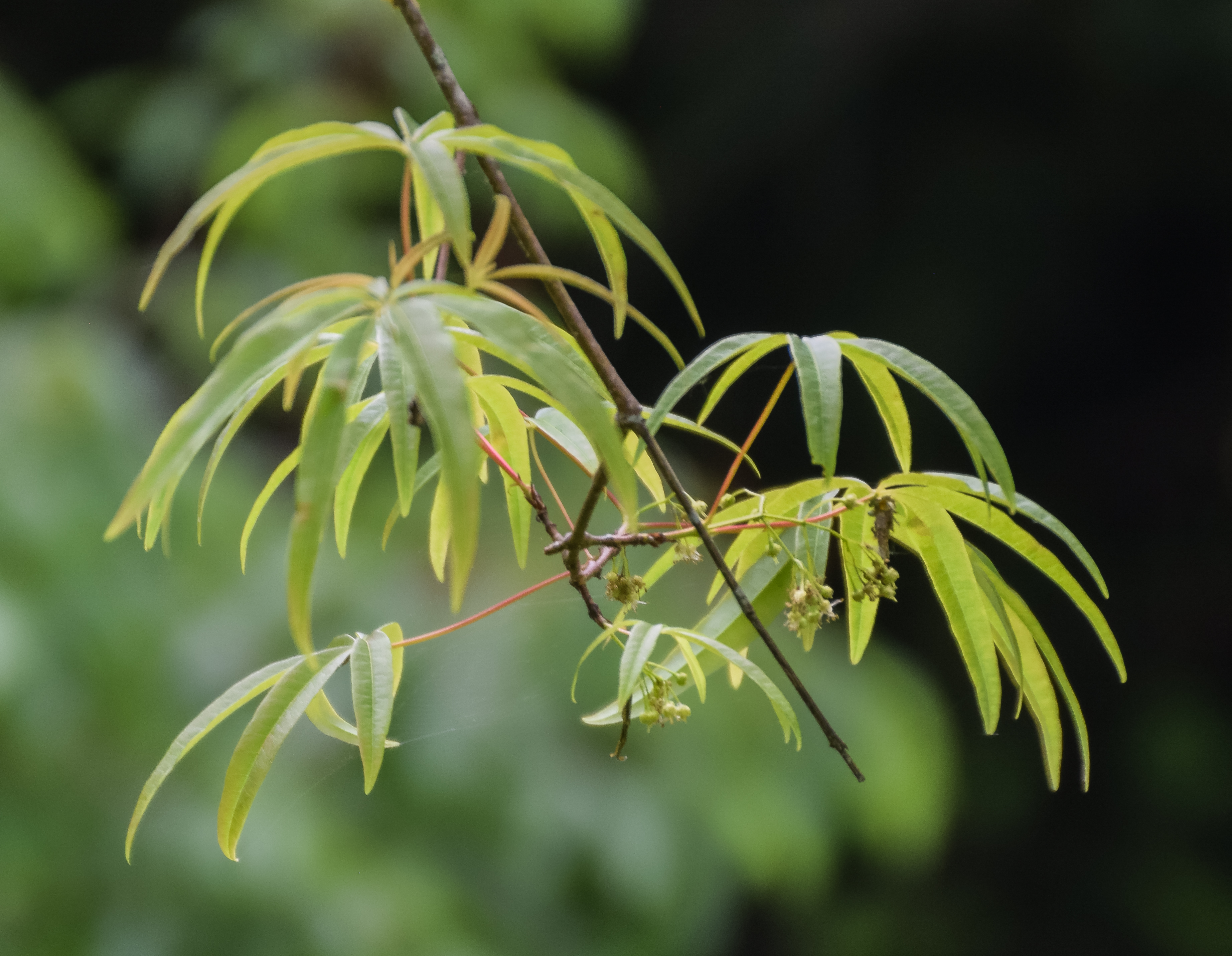 Acer pentaphyllum in Hackfalls Arboretum, Gisborne Region, New Zealand